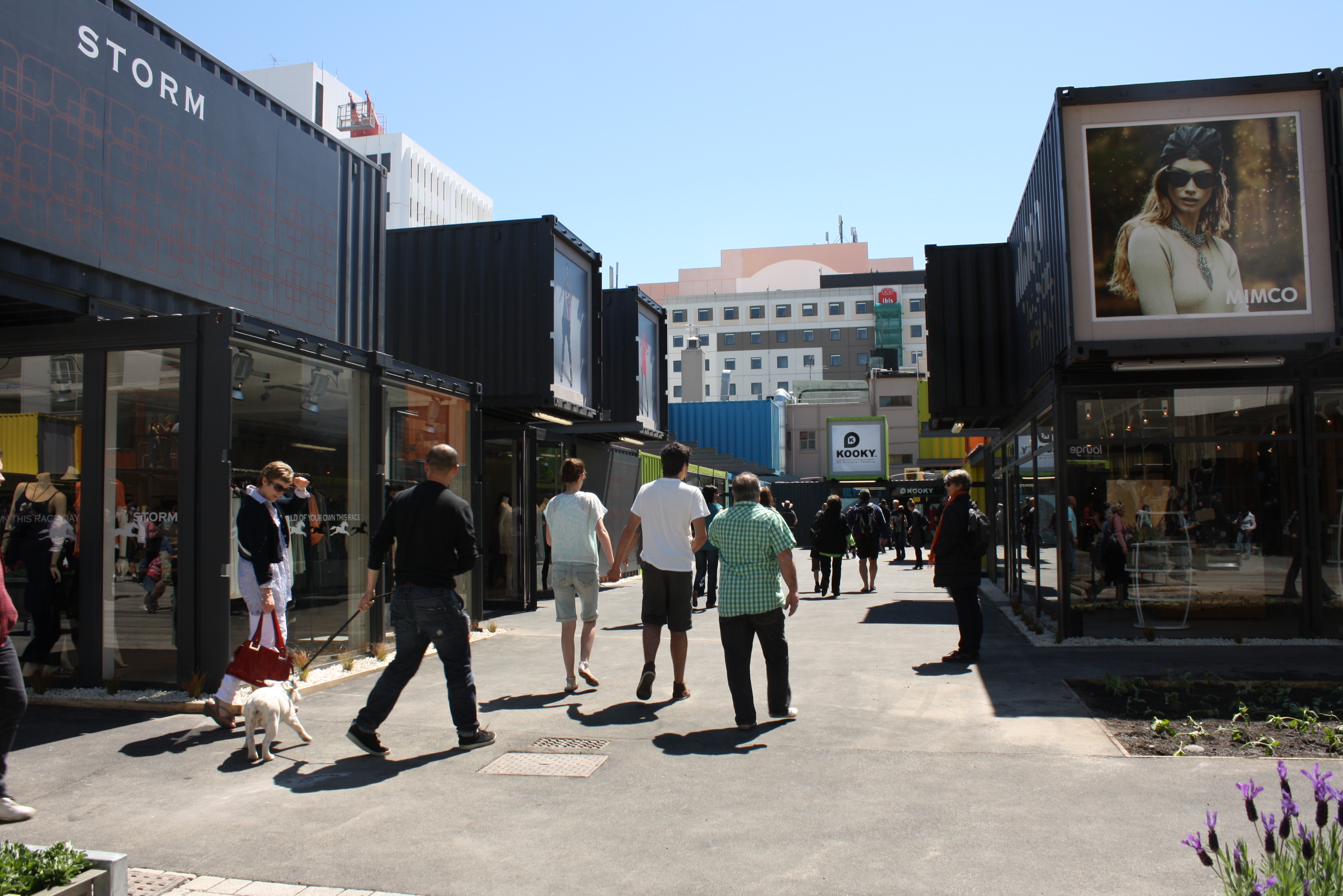 Reopening of City Mall in Christchurch on 29 October 2011.